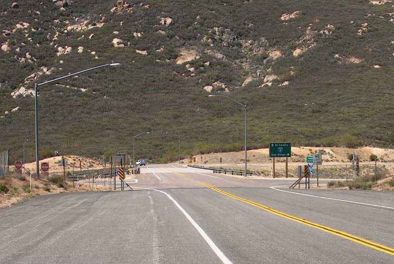 Photograph taken by Philip Erdelsky and released into the public domain.